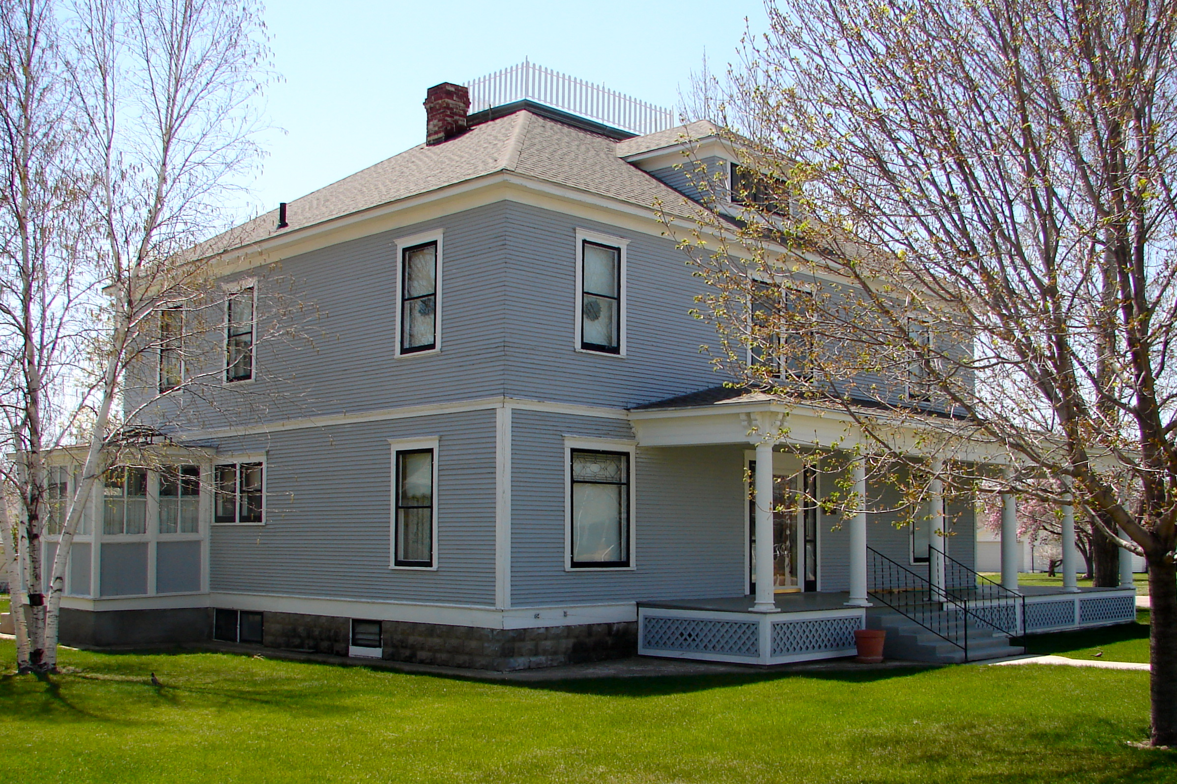 Fred and Minnie Meyer Sudman House on the NRHP since December 6, 1990. At 490 Vincent Ave., Chappell, Deuel County, Nebraska